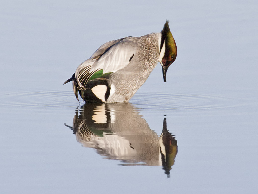 Visitors have come from all over the country to see a rare falcated duck, a "vagrant" from Asia, that arrived at CA's Colusa National Wildlife Refuge in December.